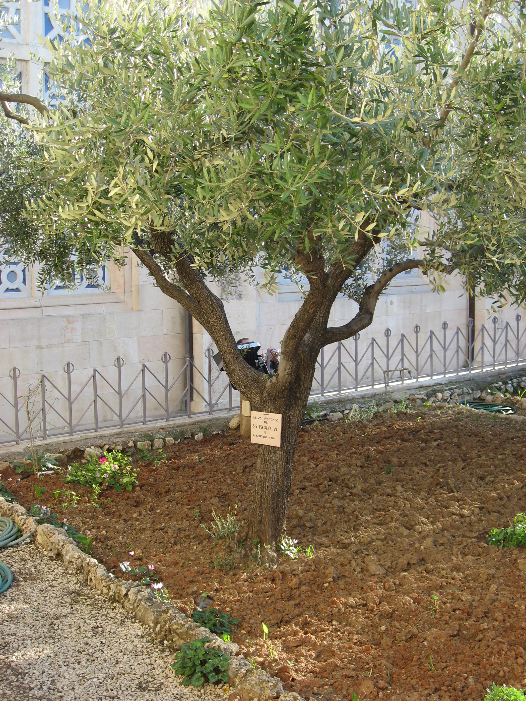 Olivetree planted by Pope Paul VI during his visit to the Holy Land